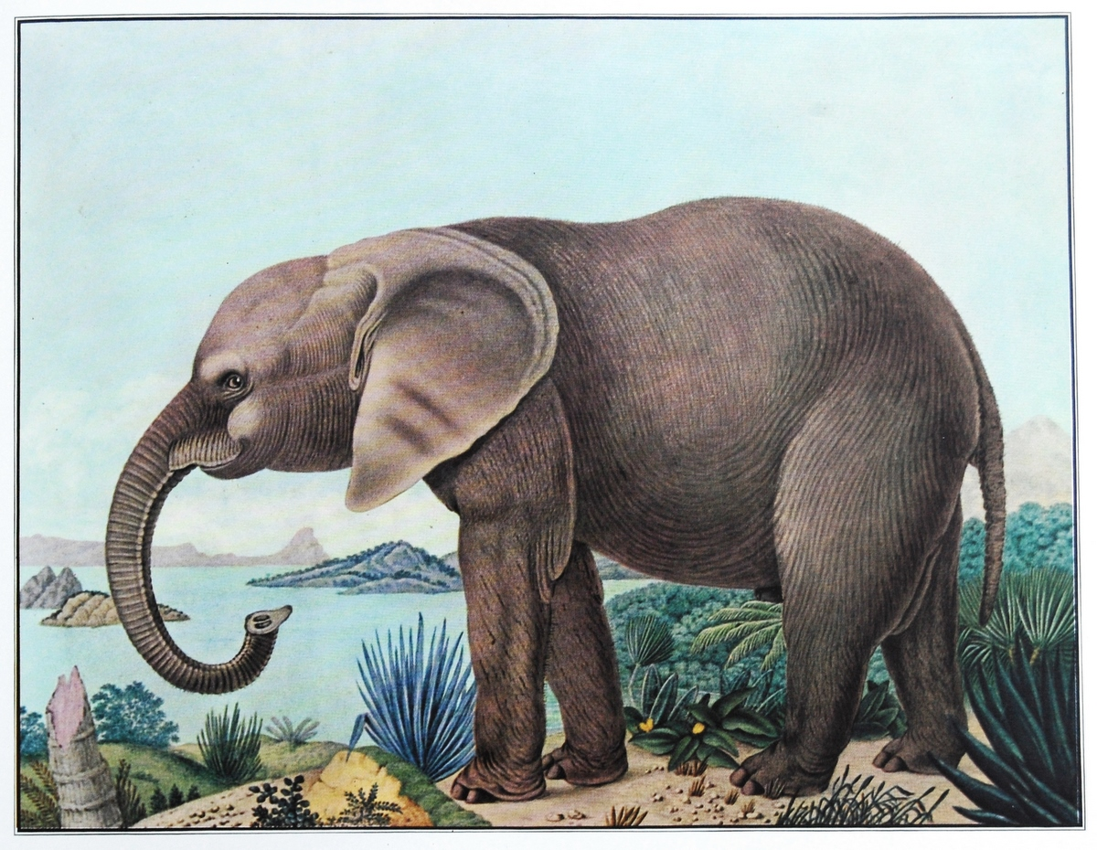 from the "Bestiarium"